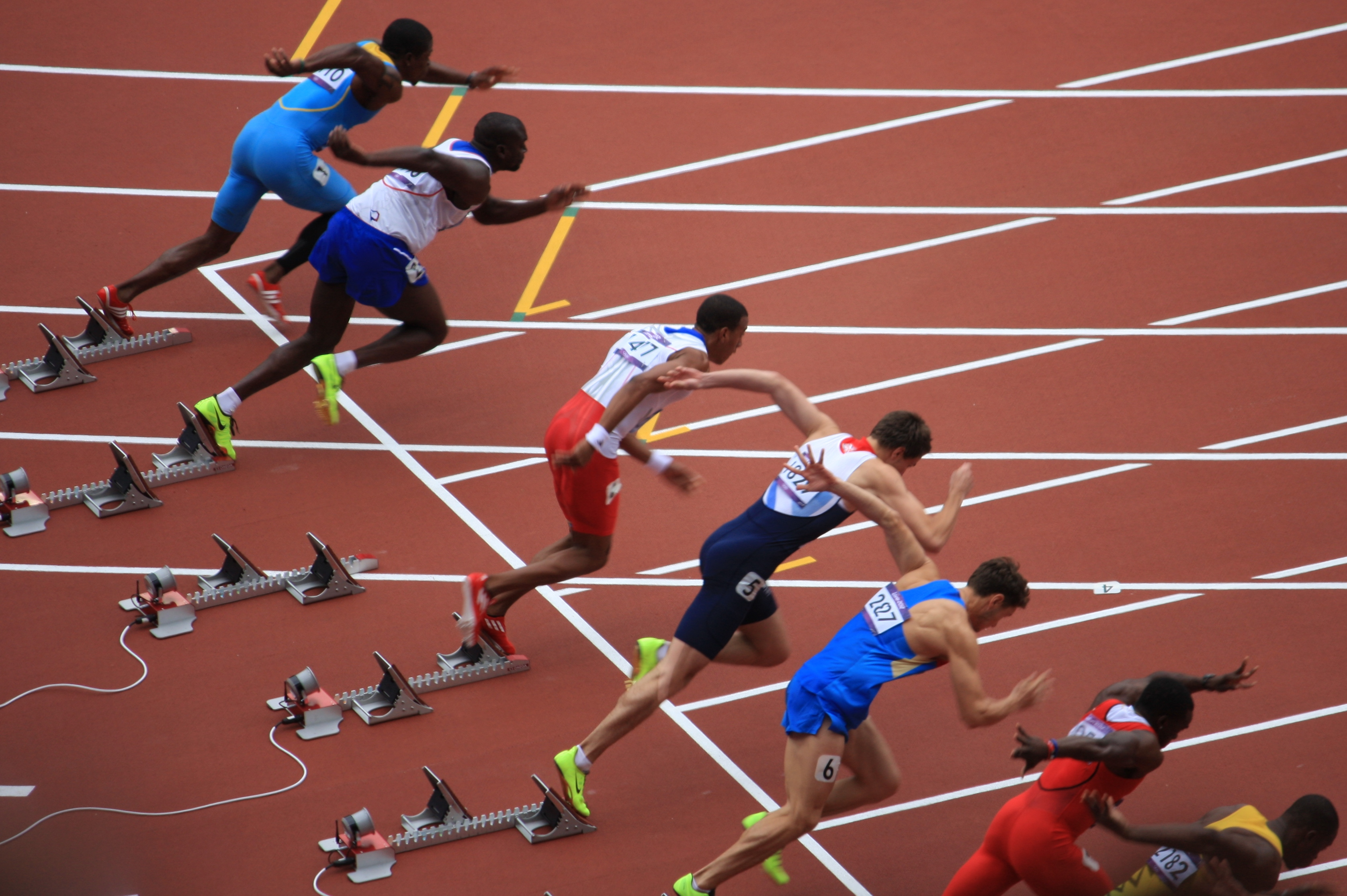 London Olympics, August 7 2012.